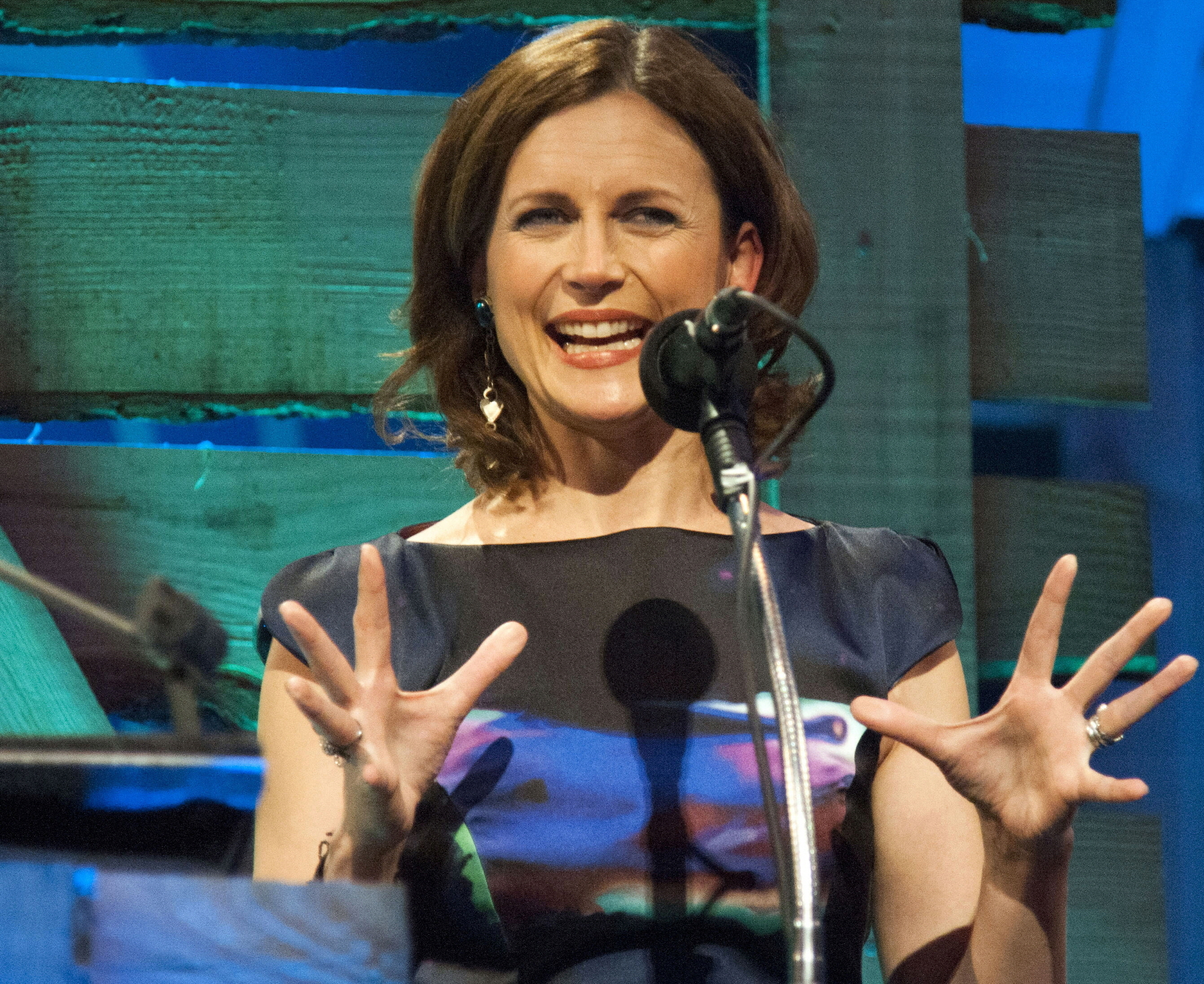 An evening at The Royal Albert Hall as official photographer at the 2014 BBC Radio 2 Folk Awards.